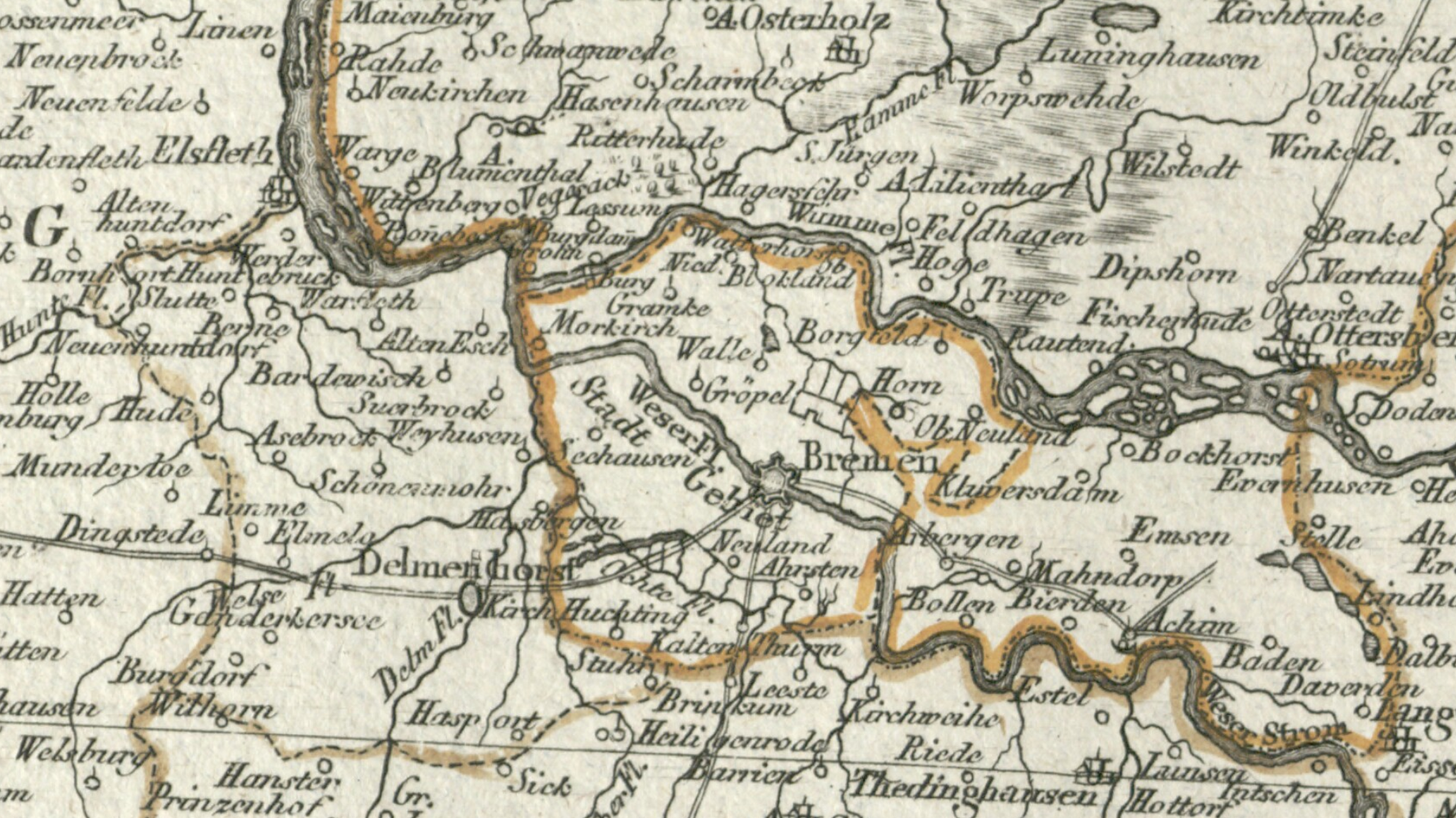 Detail cropped out of a late 18th century map showing the territory of the Free Imperial City of Bremen (center). Bremen also called itself the Free and Hanseatic City of Bremen. The territory north and east of Bremen was past of the Duchy of Bremen-Verden. The 24-leaf map, published in 1797 by F. A. Schrämbl was titled Neueste Generalkarte von Deutschland in XXIV Blättern.